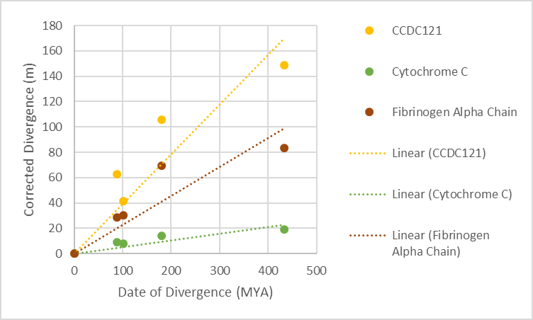 Rate of molecular evolution of CCDC121 gene relative to cytochrome c and fibrinogen alpha chain genes. Homo sapien genes were used as the reference for corrected divergence. Oryctolagus cuniculus, Loxodonta africana, Ornithorhynchus anatinus, and Electrophorus electricus orthologs were examined.